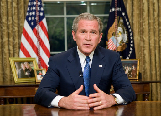 President George W. Bush delivers an Address to the Nation from the Oval Office, Monday night, May 15, 2006.